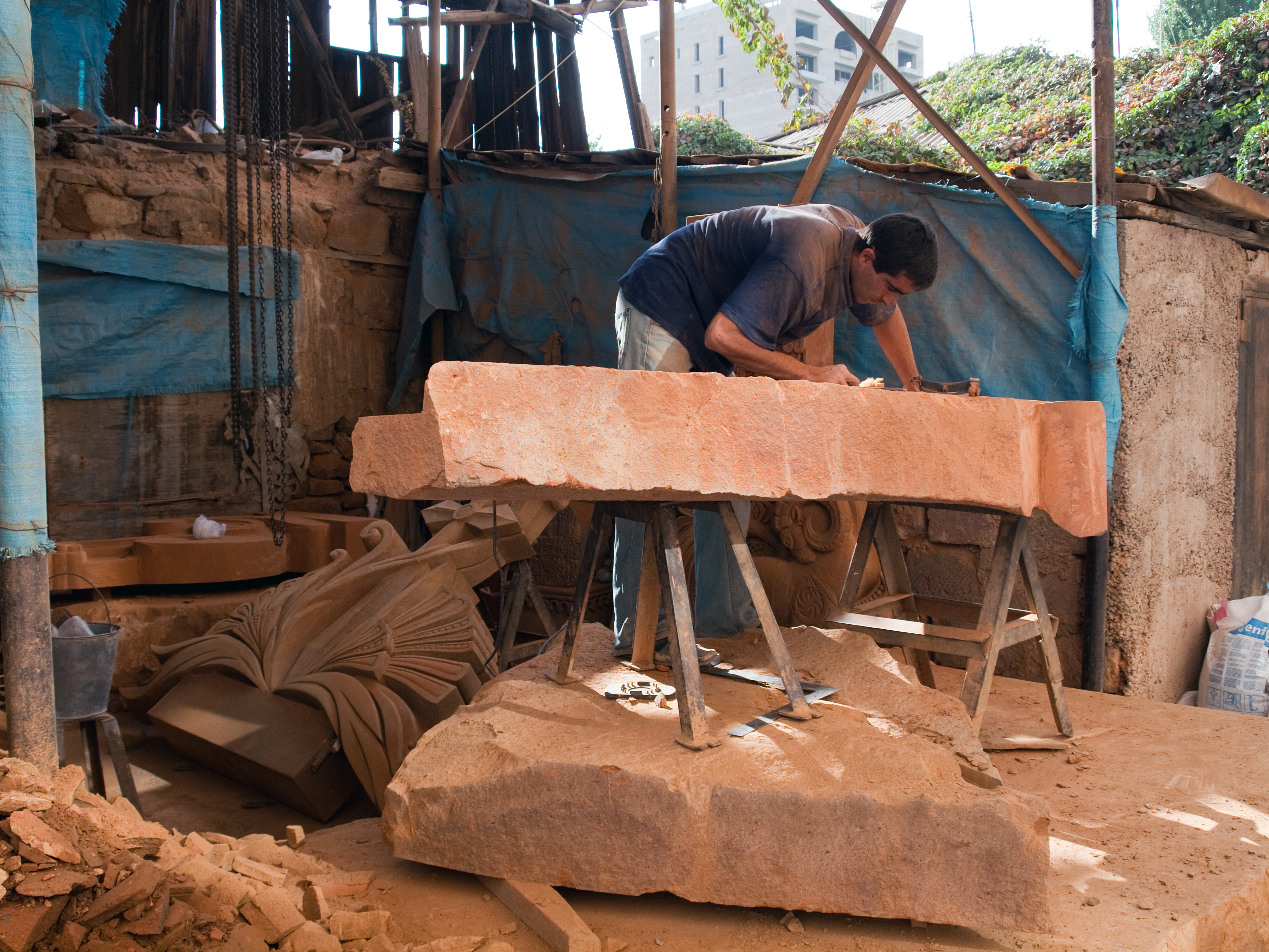 A stone carver carving modern versions of a khachkar, Yerevan, Armenia.